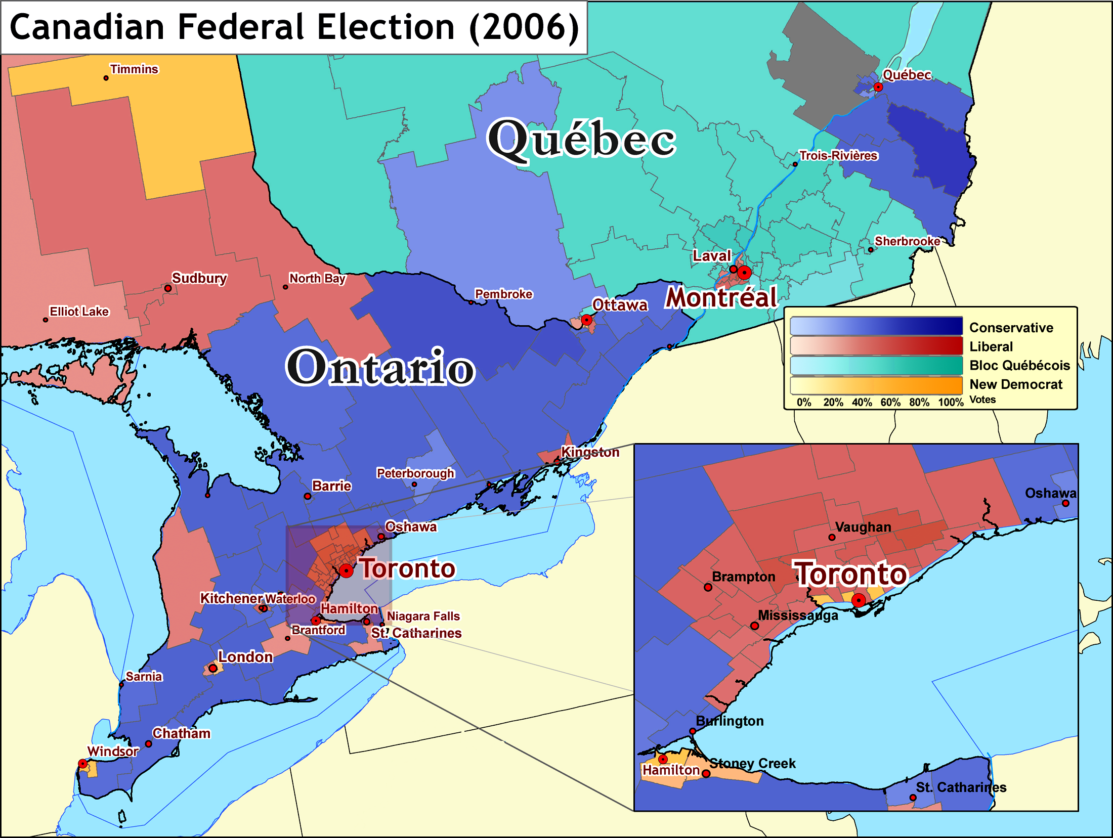 Ontario/Quebec subset of Image:Canada election 2006 v2.png - Map of the 2006 Canadian federal election results (January 23, 2006) The Conservative party won a minority government, with Stephen Harper (of Calgary, Alberta) becoming Prime Minister. Map created by Kmf164 (January 24, 2006). Map compiled using ArcGIS, Adobe Illustrator, and Adobe Photoshop, and is derived from data sources including: Geogratis - Natural Resources Canada / Elections Canada - Electoral district boundaries. The source data is copyright by the Government of Canada, however is free to use for any purpose, as long as acknowledgement is provided. Elections Canada - Elections results data.